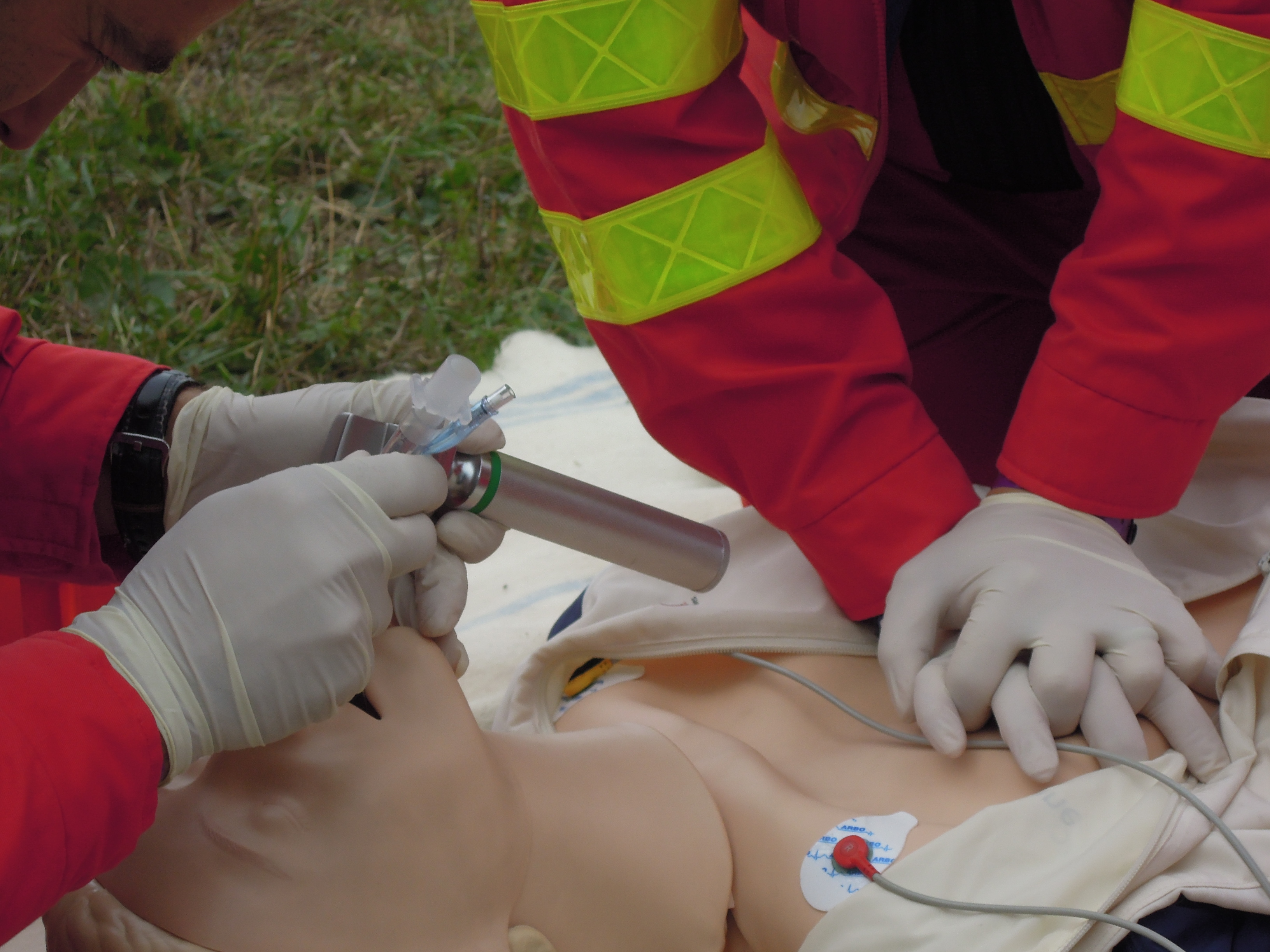 Paramedics of Zdravotnická záchranná služba Moravskoslezského kraje during cardiopulmonary resuscitation and endotracheal intubation, photo was taken during 2012 NATO Days in Leoš Janáček Airport Ostrava, Czech Republic